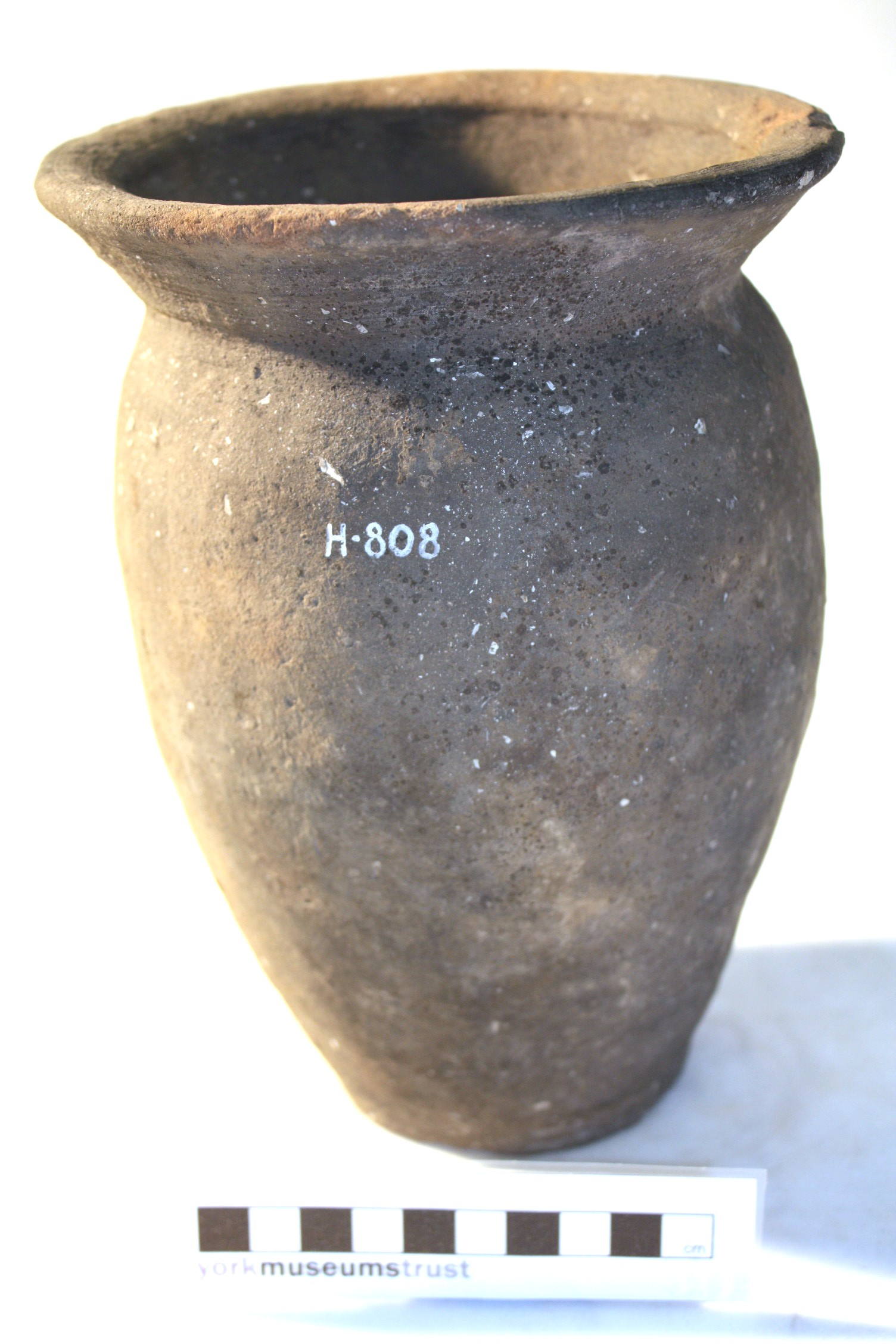 Described in Eboracum as "tall cooking pot in Dales ware, of coarse grits, rougher at the base than at the top". Coarse shell-tempered fabric with the characteristic inwardly sloping rim of Dales-Ware vessels.